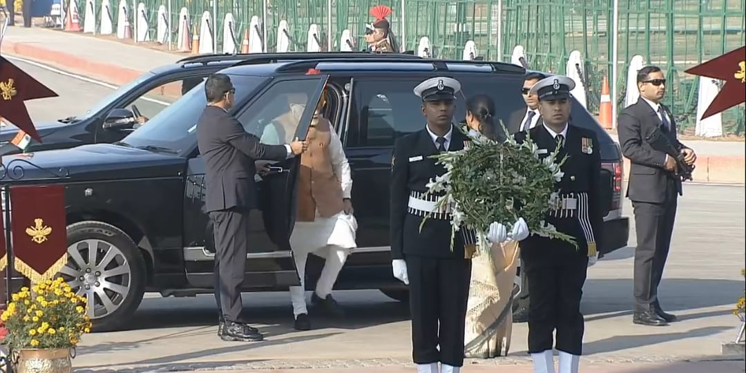 Prime Minister Narendra Modi Steps out of his Range Rover as he is welcomed by the defence minister of India.